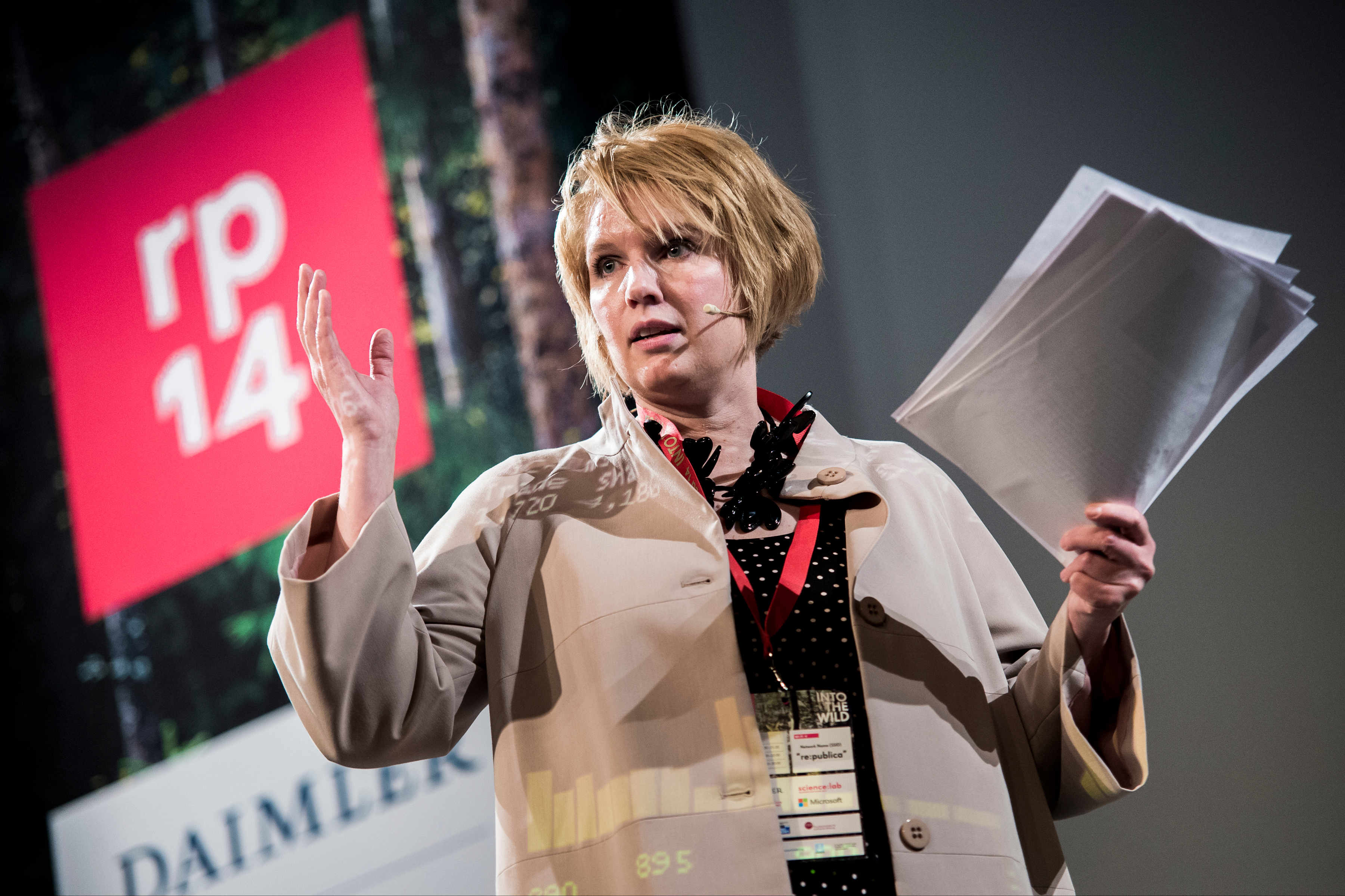 Yvonne Hofstetter, republica 2014 - Tag 2 Copyright: republica/Gregor Fischer, 07.05.2014 CC-BY-SA 2.0